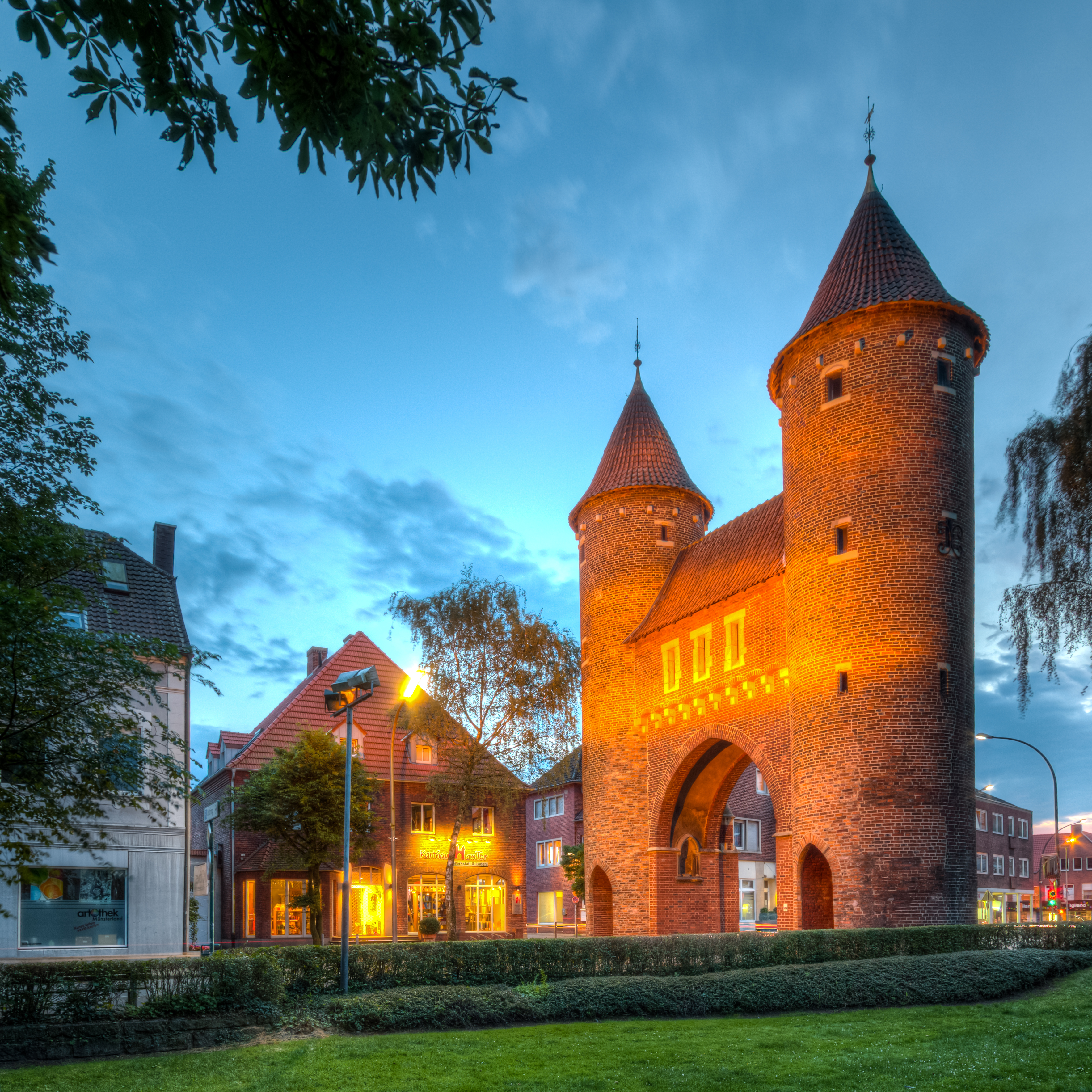 Lüdinghausen Gate, Dülmen, North Rhine-Westphalia, Germany This image shows a heritage building in Germany, located in the North Rhine-Westphalian city Dülmen (no. 1).